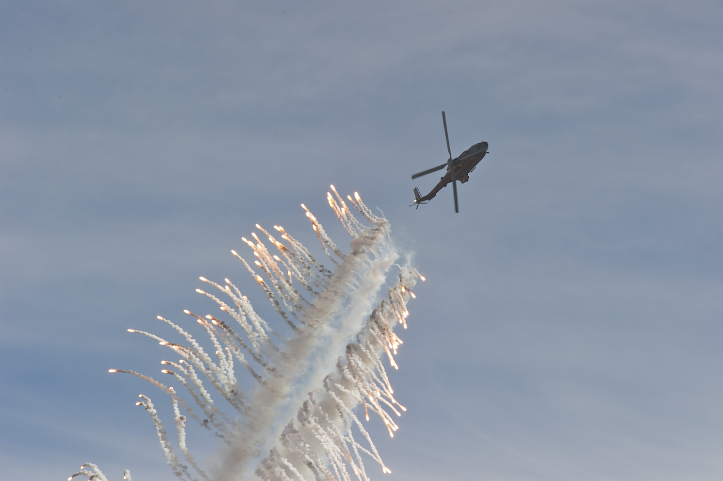 Swiss Aérospatiale AS.332M1 «Super Puma» releasing flares during the Axalp Airshow, Switzerland